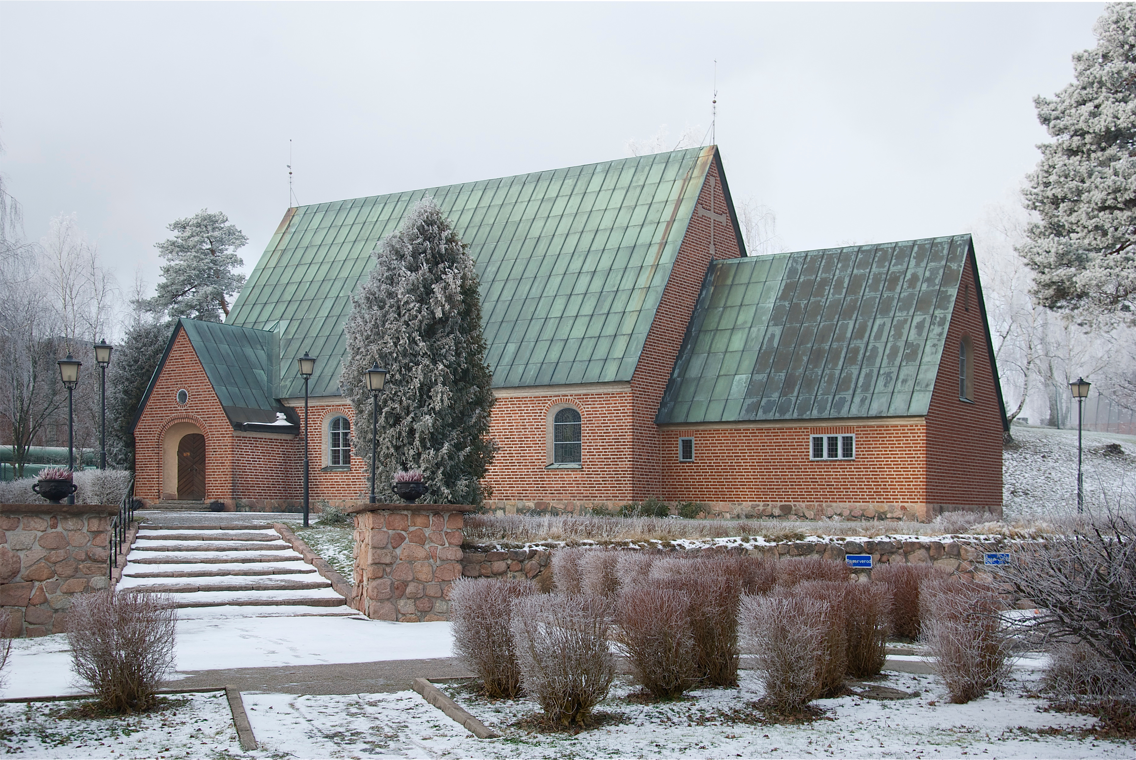 Hallstaviks kyrka (Hallstavik church). Built 1932-33. Architect: Ivar Tengbom